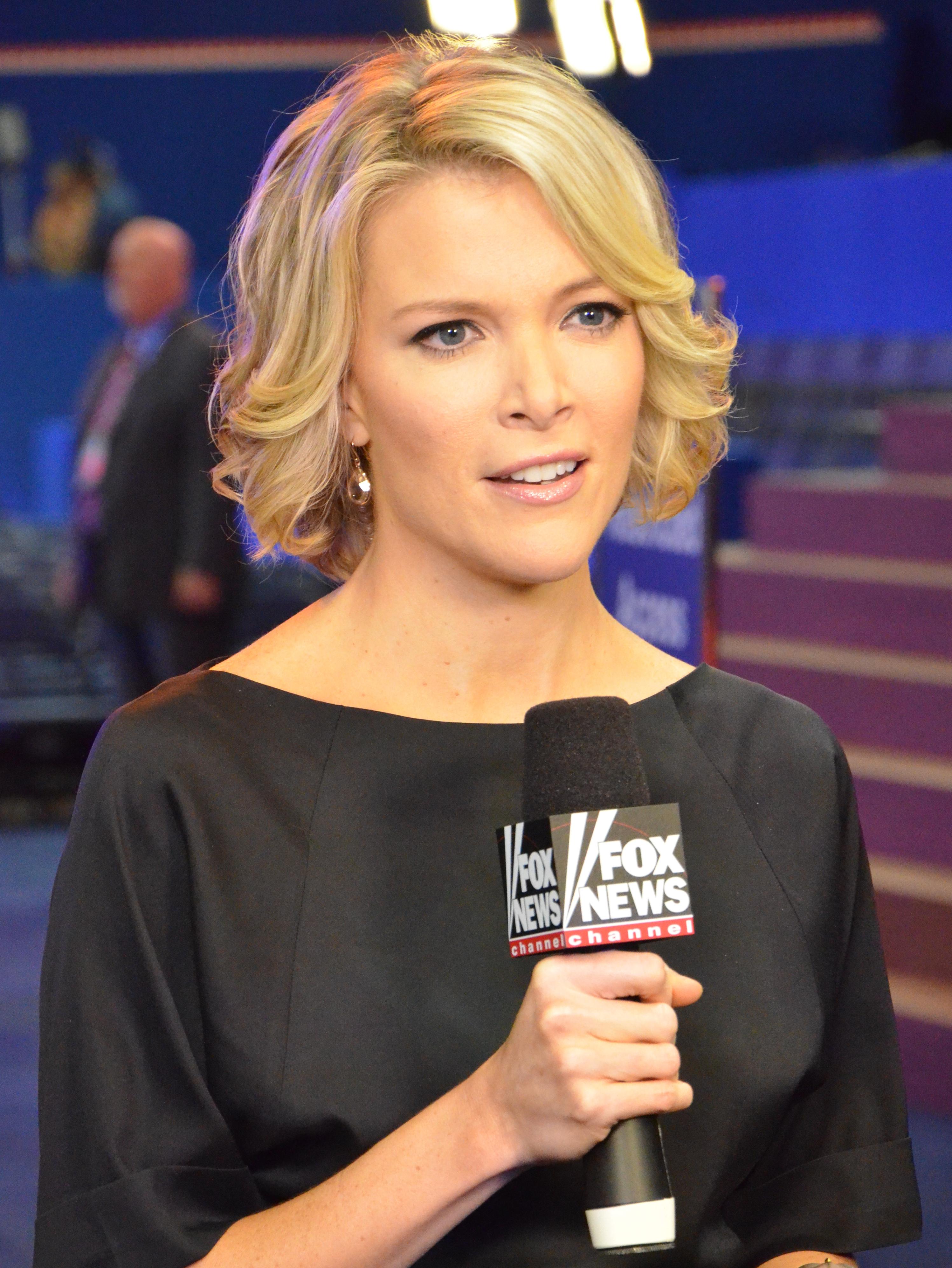 Photo of Megyn Kelly giving a standup news report from the floor of the Republican National Convention in 2012.